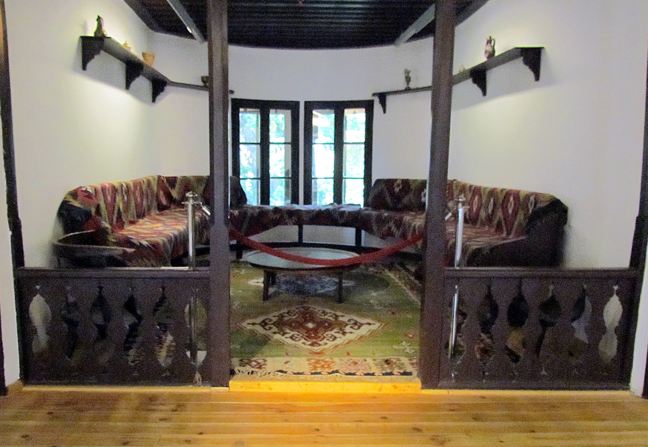 Divanhana, Museum of Vuk and Dositej